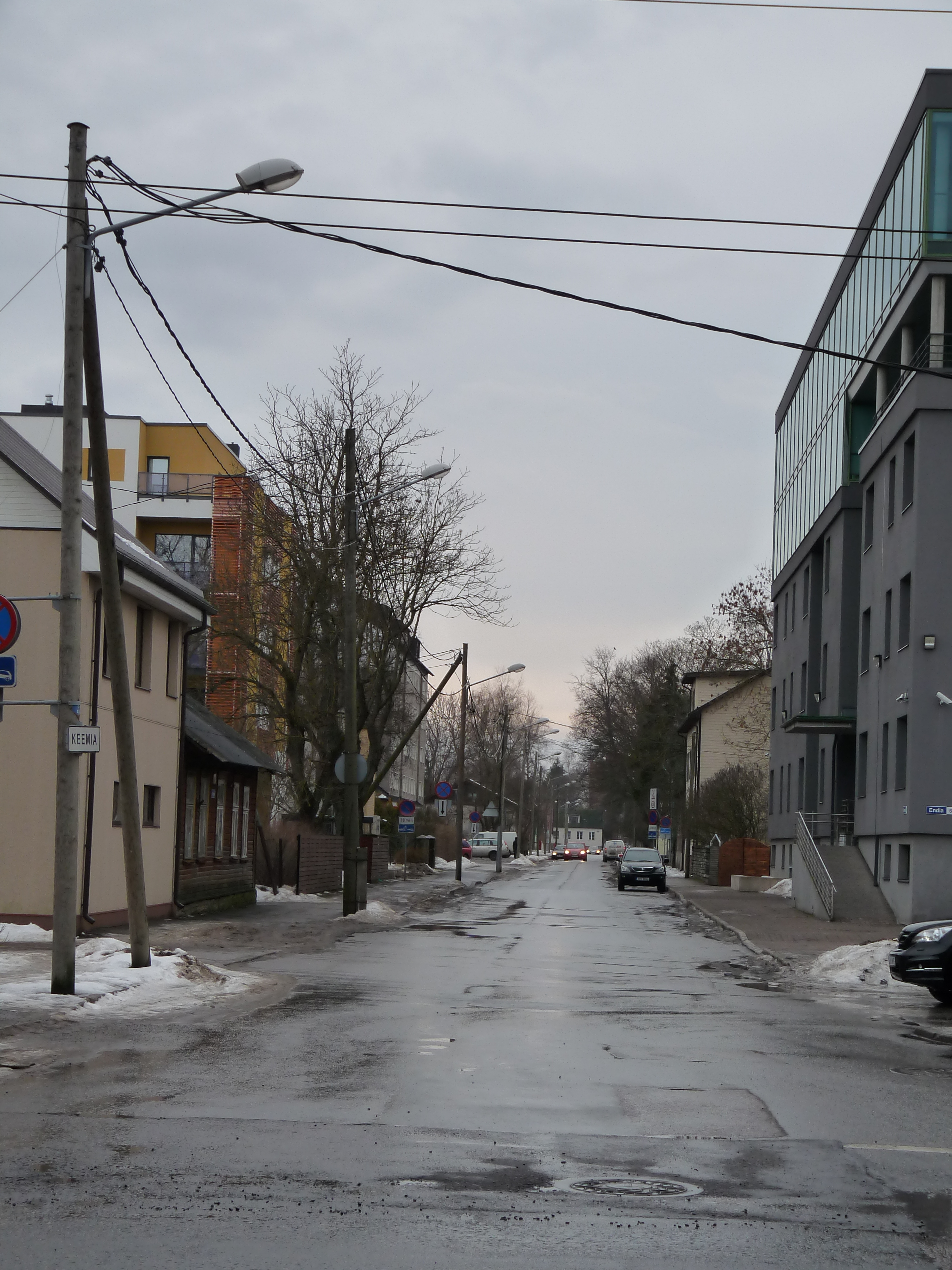 Keemia street in Tallinn, Estonia